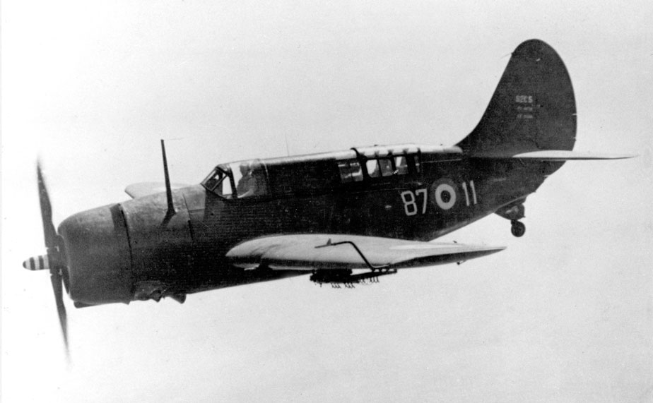 An Italian Air Force Curtiss S2C-5 Helldiver of the 87th Group. The SB2C was called "S2C" in Italian service.